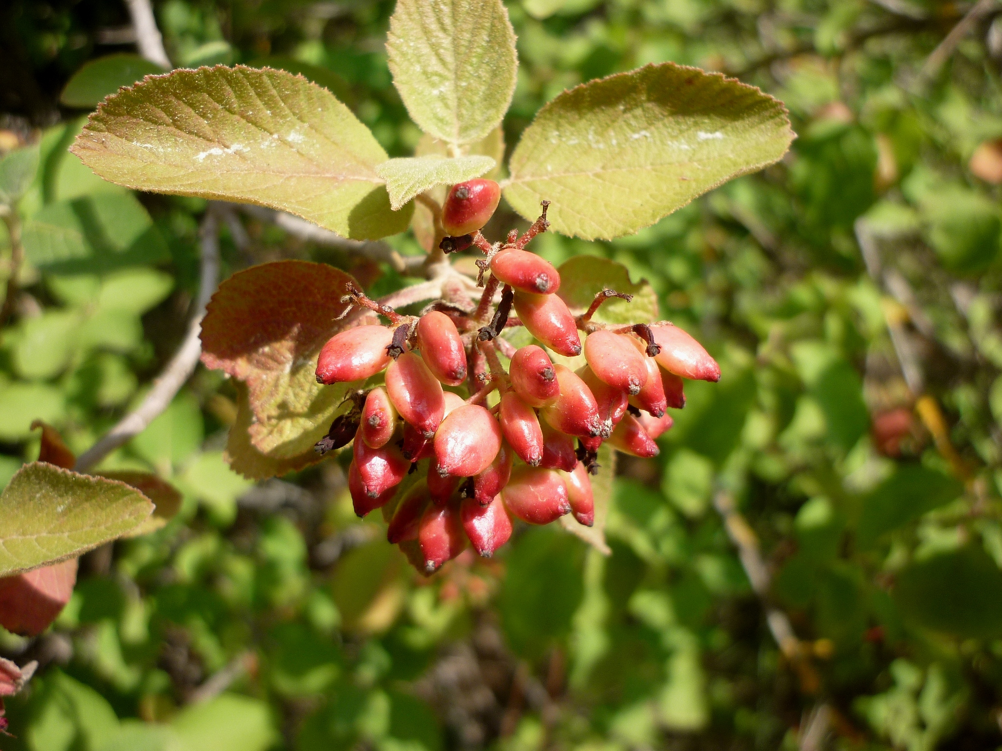 Viburnum lantana. In Torà (Segarra - Catalunya). To 570 m. altitude